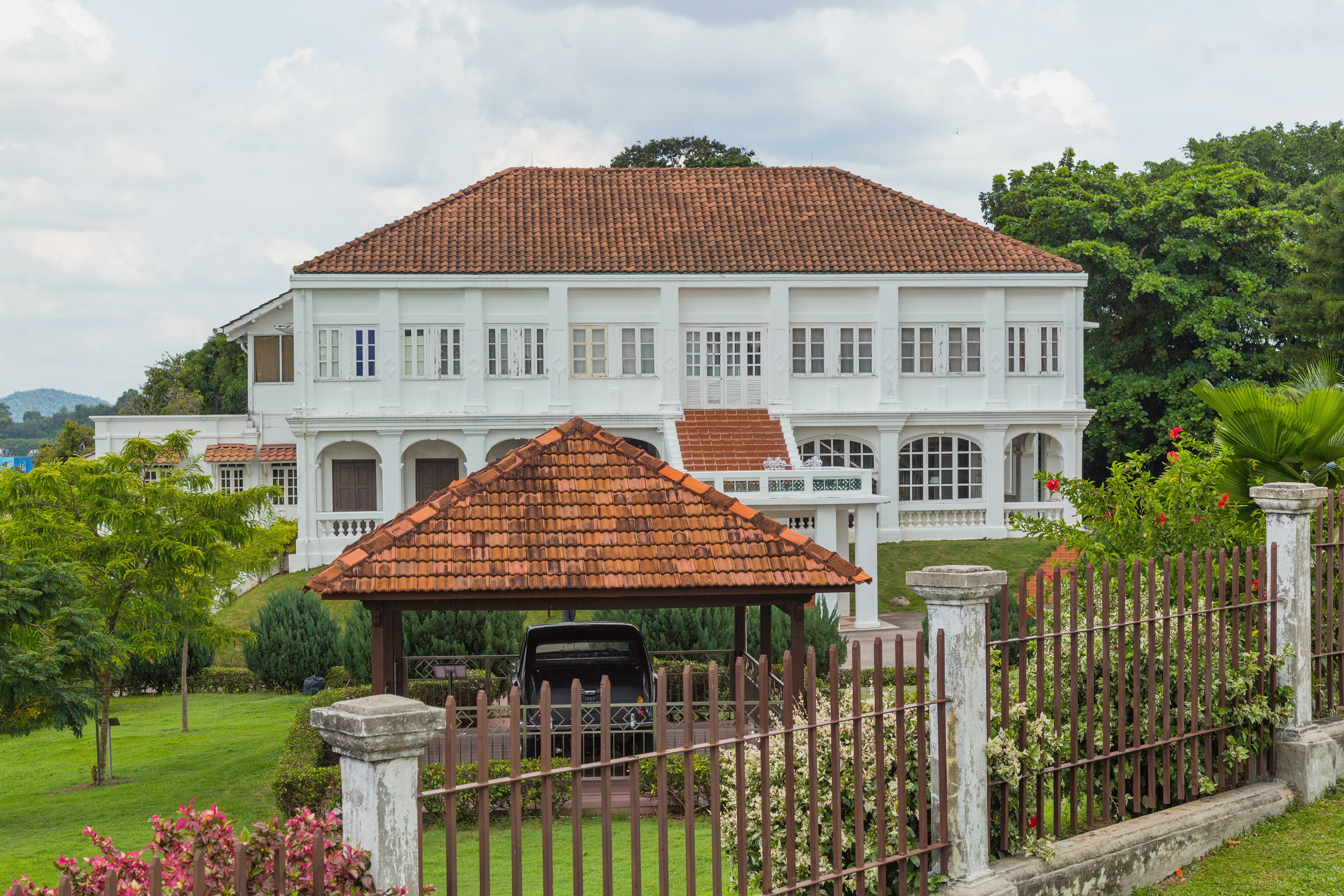 Governor's Museum. Malacca City, Malacca, Malaysia.